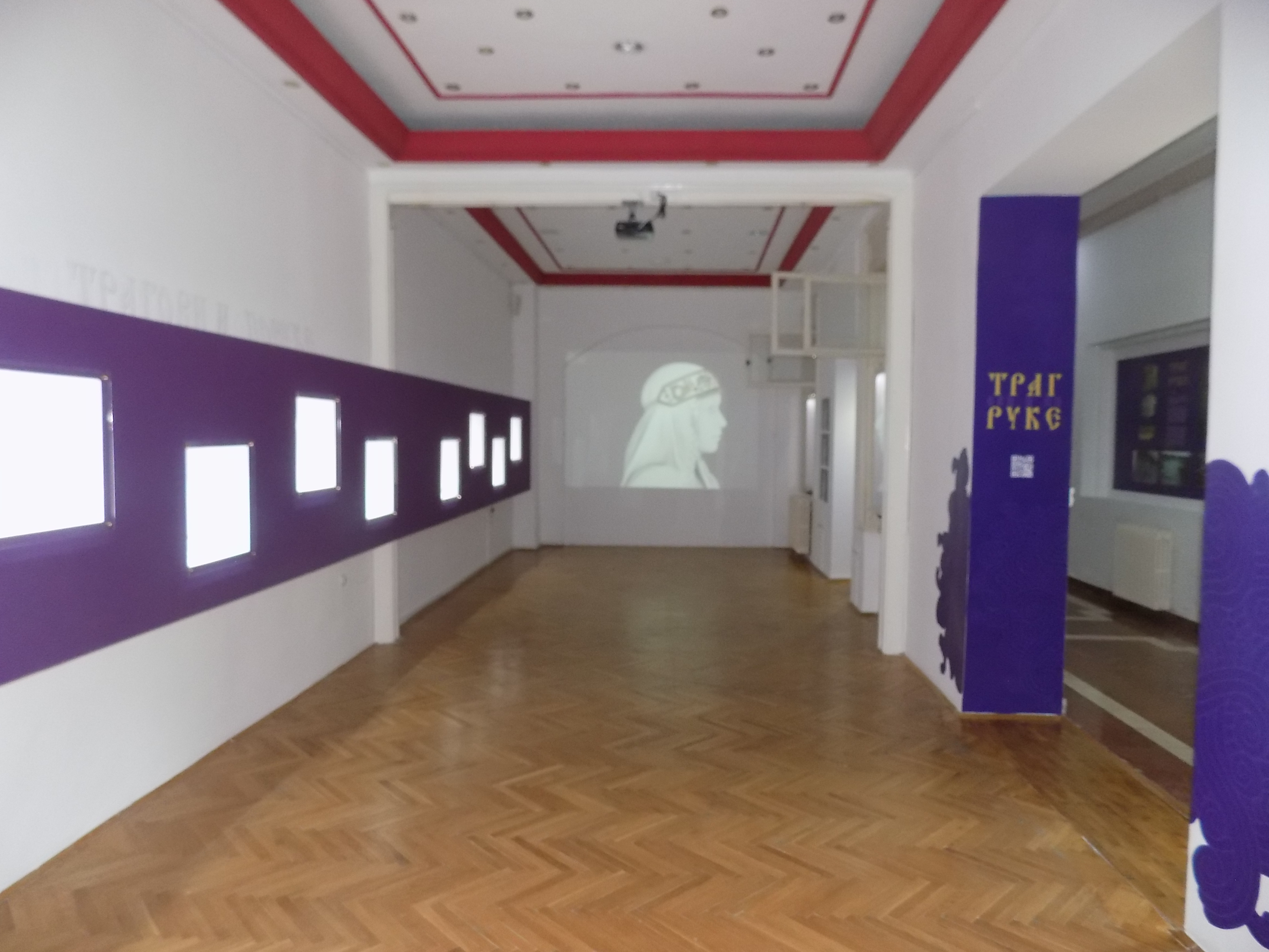 exhibition